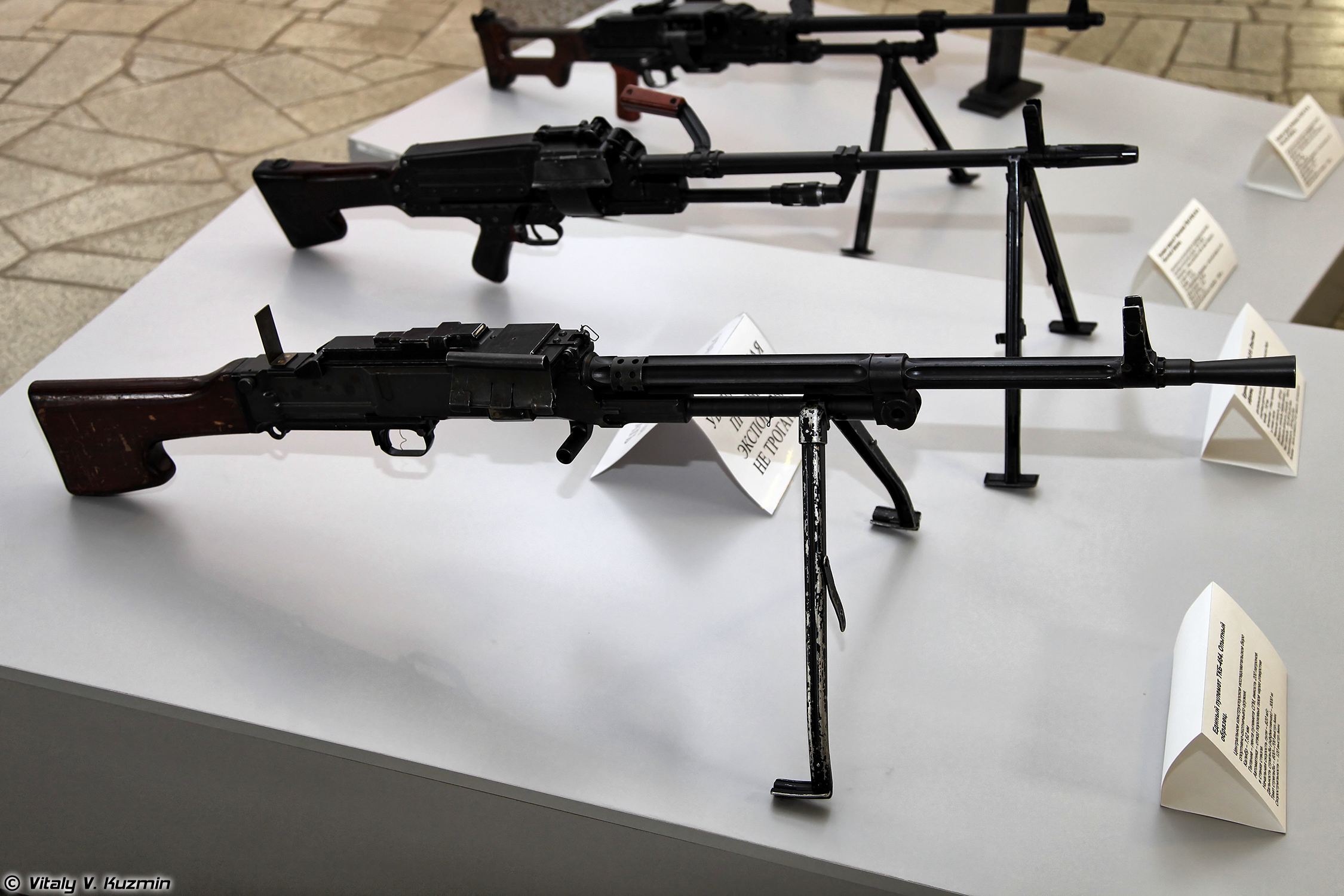 TKB-464 (down) and TKB-015 (up) machine guns